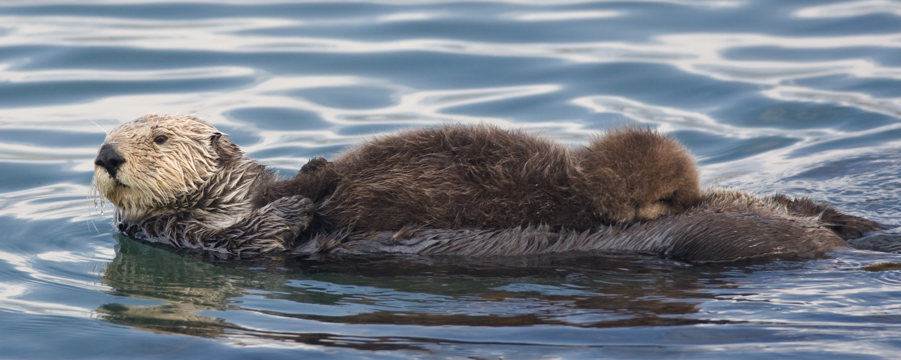 (2nd best of 3) Sea Otter (Enhydra lutris) mother with nursing pup in the Morro Bay harbor, Morro Bay, CA. 27 Oct. 2008. Michael "Mike" L. Baird, Canon 1D Mark III, 600mm f/4 IS with circular polarizer, on tripod. Female sea otters have two abdominal nipples, and float on their backs to nurse their pups.